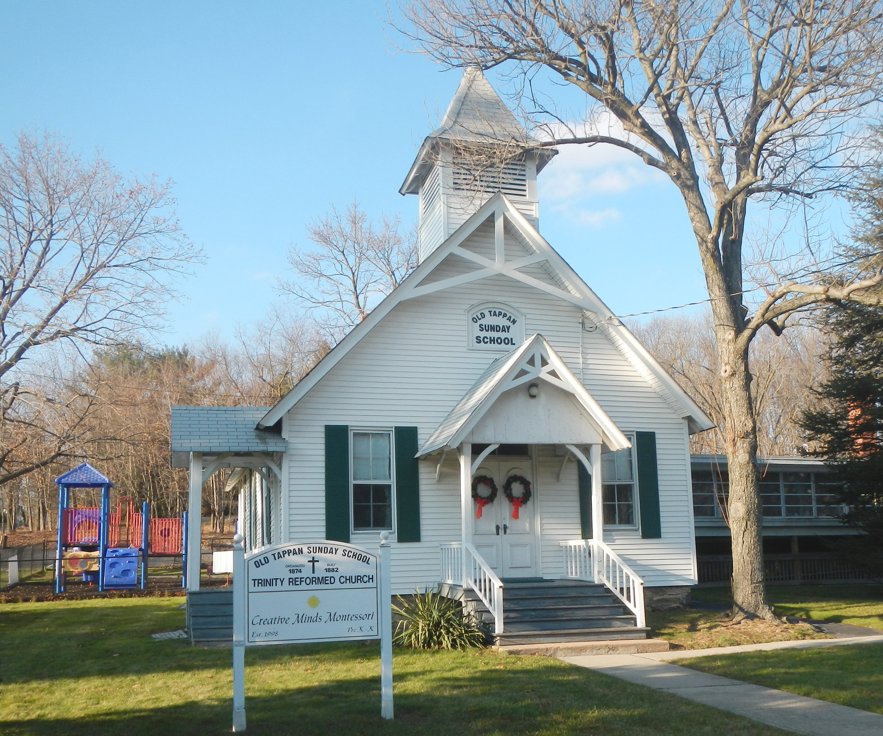 Looking north from Old Tappan Road on a sunny afternoon.